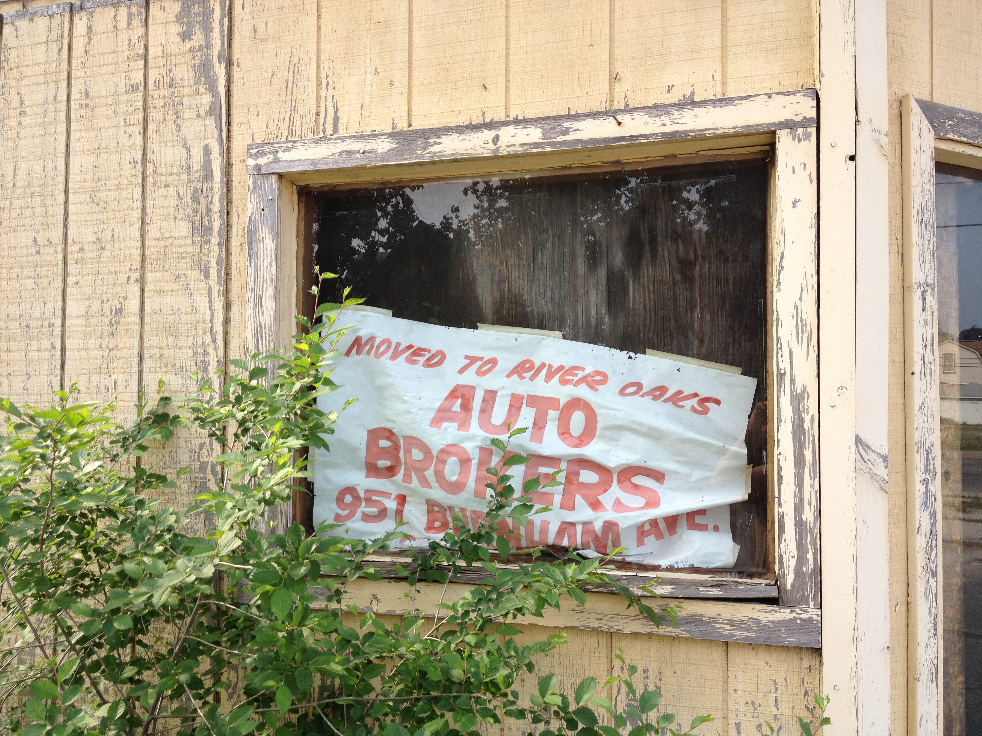 Hammond, IN, USA